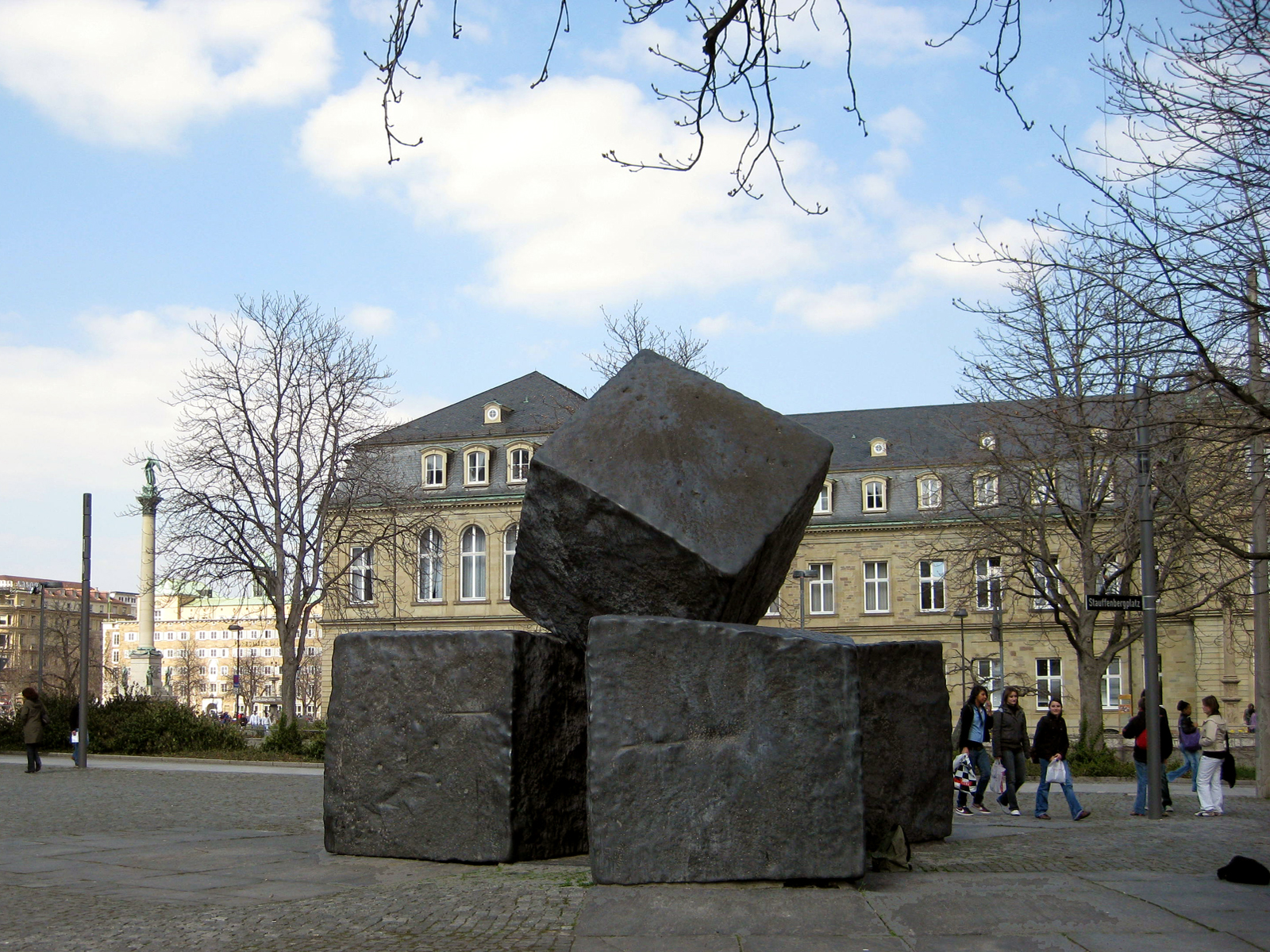 Sculptures in Stuttgart, Elmar Daucher, Mahnmal für die Opfer des Nationalsozialismus, 1970